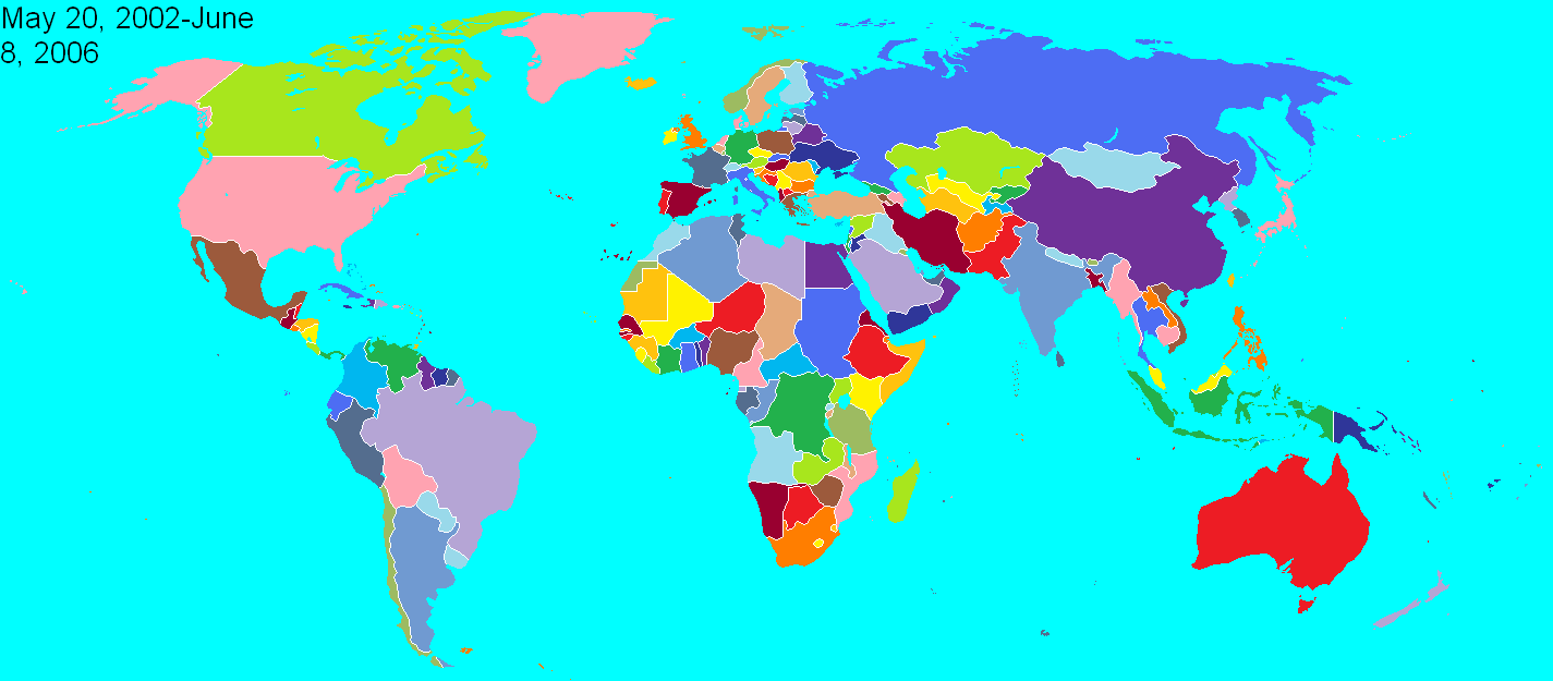 Timor-Lestele